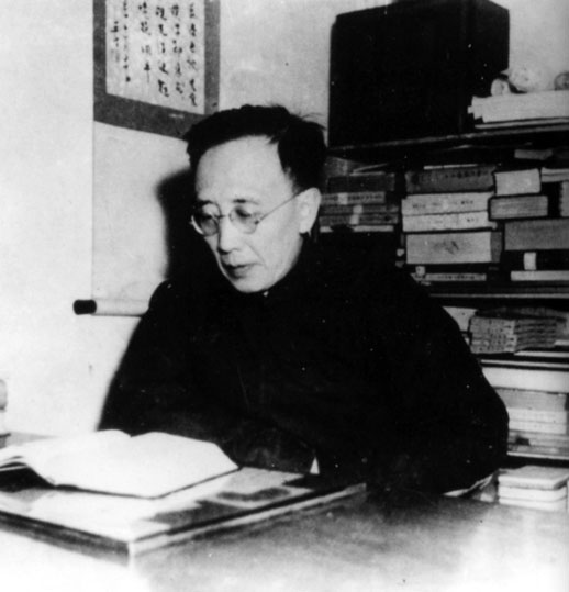 Guo Moruo in Chongqing, 1941